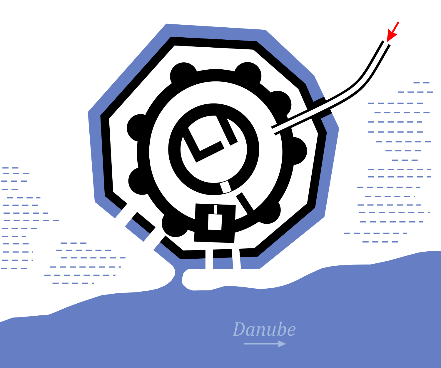 Plan of the medieval Bulgarian fortress Holavnik (Little Nikopol) on the Danube, now in Romania Based on: [1]